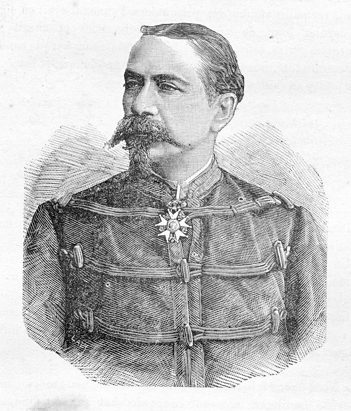 Portrait of General Philippe-Marie-Henri Roussel de Courcy (1827–87) on his assumption of command of the Tonkin Expeditionary Corps, May 1885